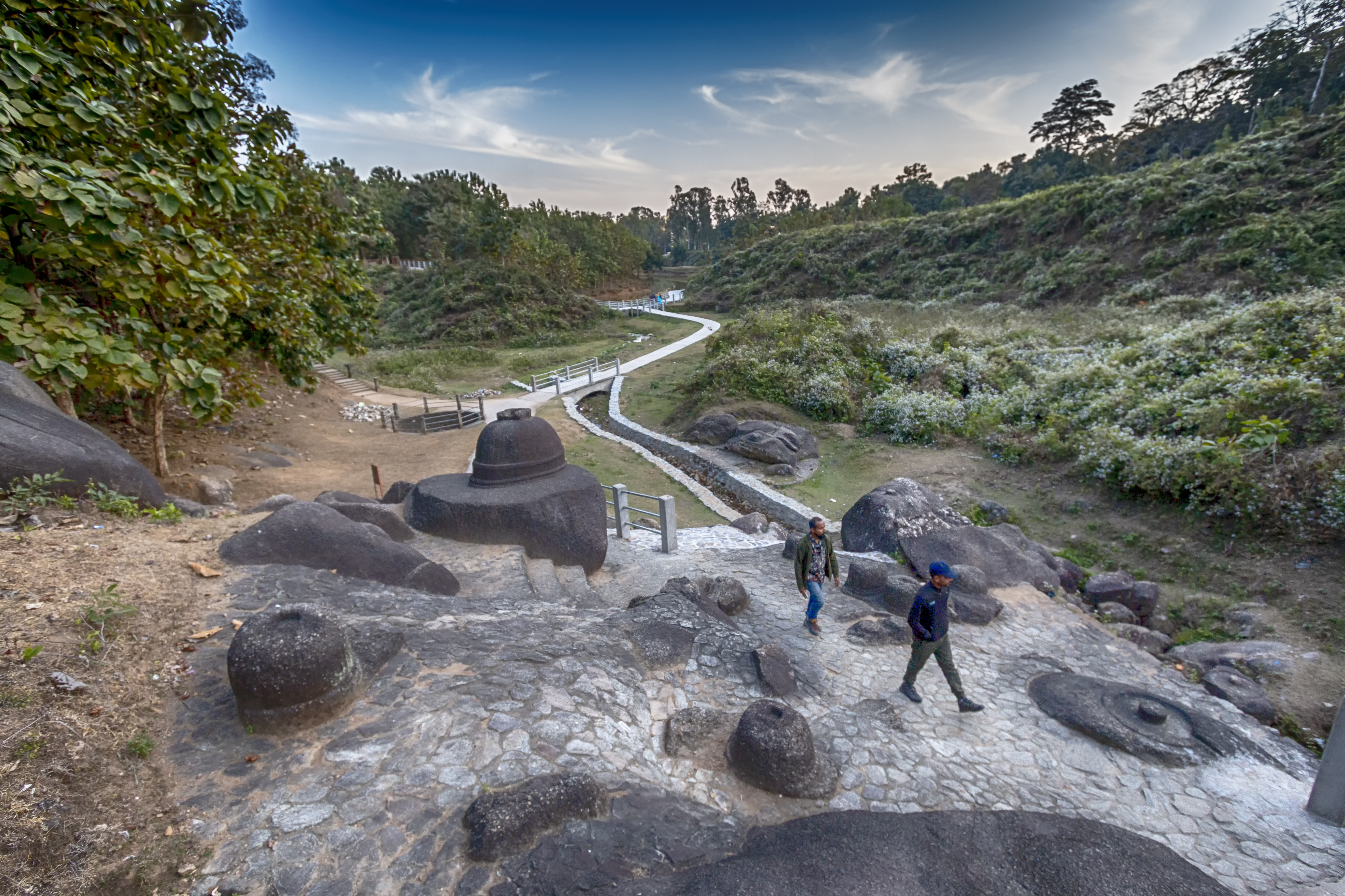 Sri Surya Pahar, Sri Surya Pahar is located about 12 km southeast of Goalpara town and Bongaigon is the nearest city from here. about 132 km northwest of Guwahati, is a significant but relatively unknown archaeological site in Assam, India